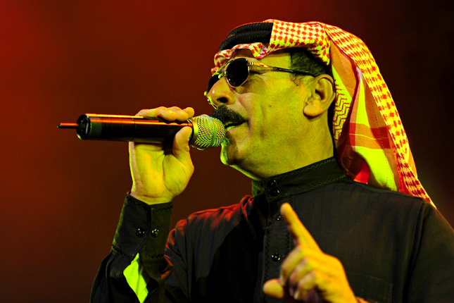 Perth International Arts Festival 2011